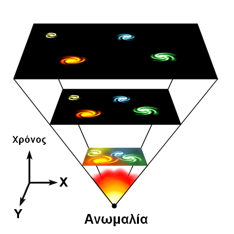 This illustration shows abstracted "slices" of space at different points in time. It is simplified as it shows only two of three spatial dimensions, to allow for the time axis to be displayed conveniently.